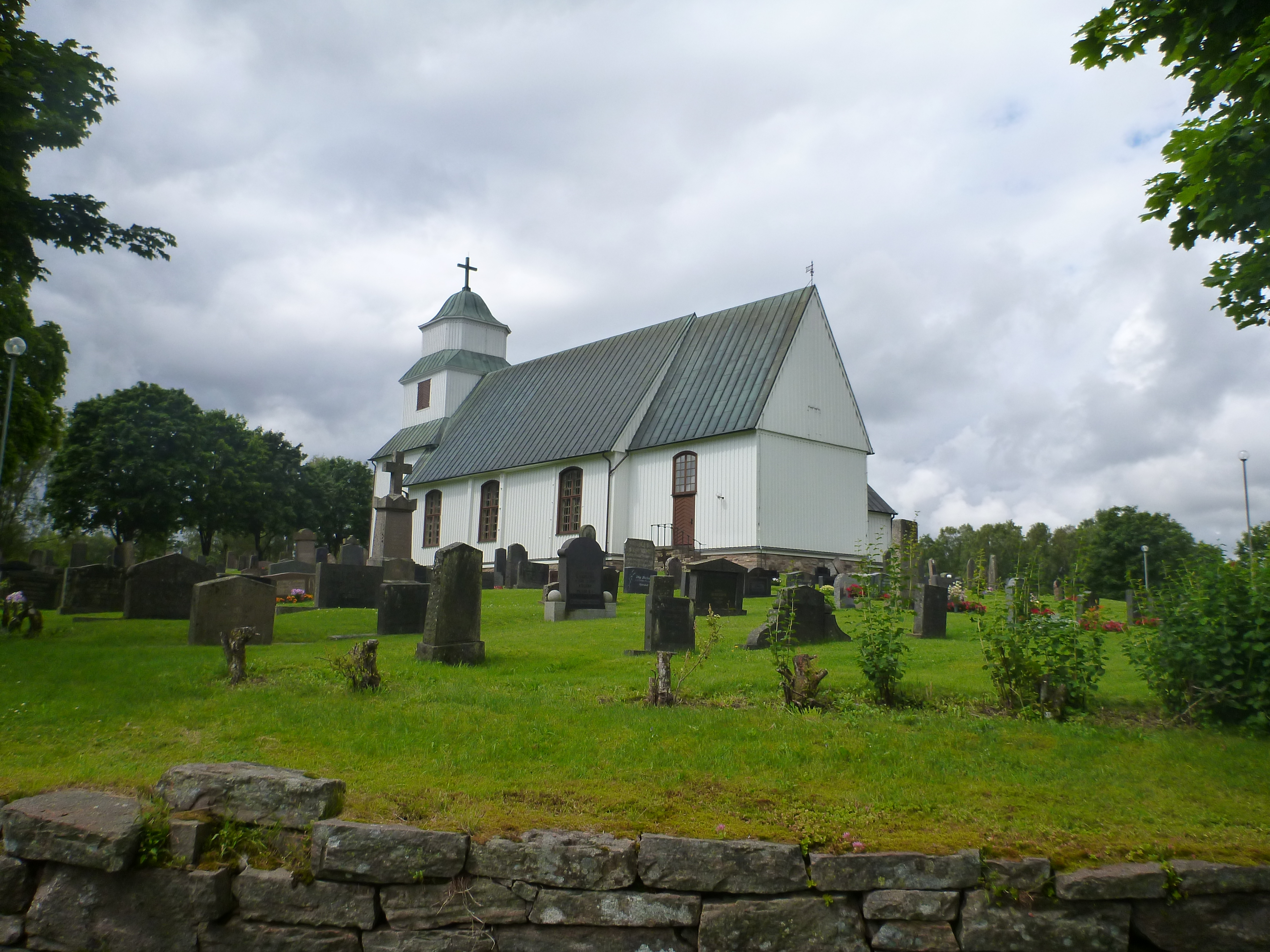 The church in Gunnarp build 1755